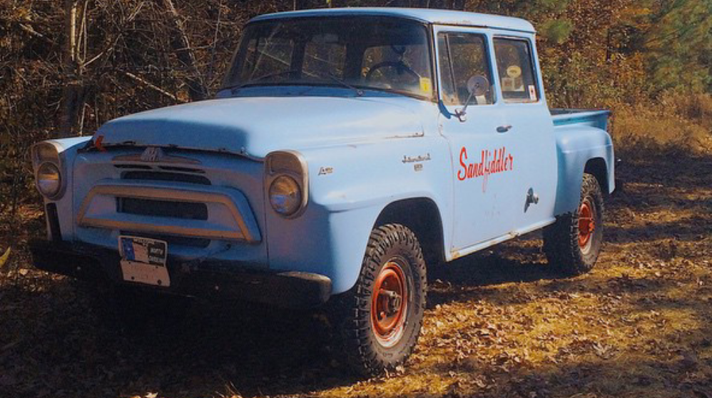 One of 17 Travelettes produced in 1958. This one in particular, is one of 6 or 8 short-bed 4x4's made in that year. Owner: IHGEAR